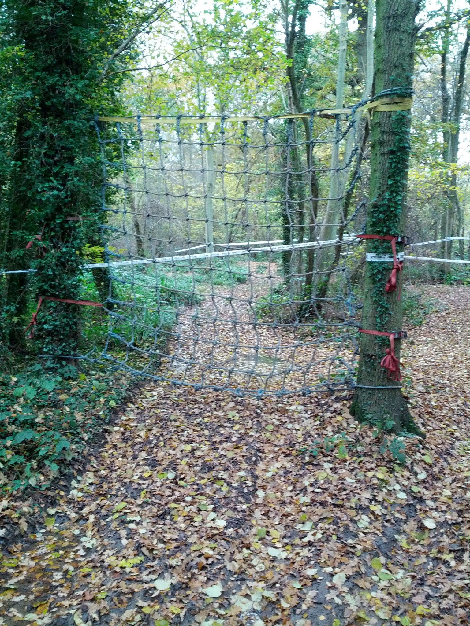 Obstacle during an obstacle run